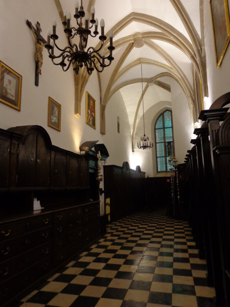 Wawel Cathedral - Sacristy